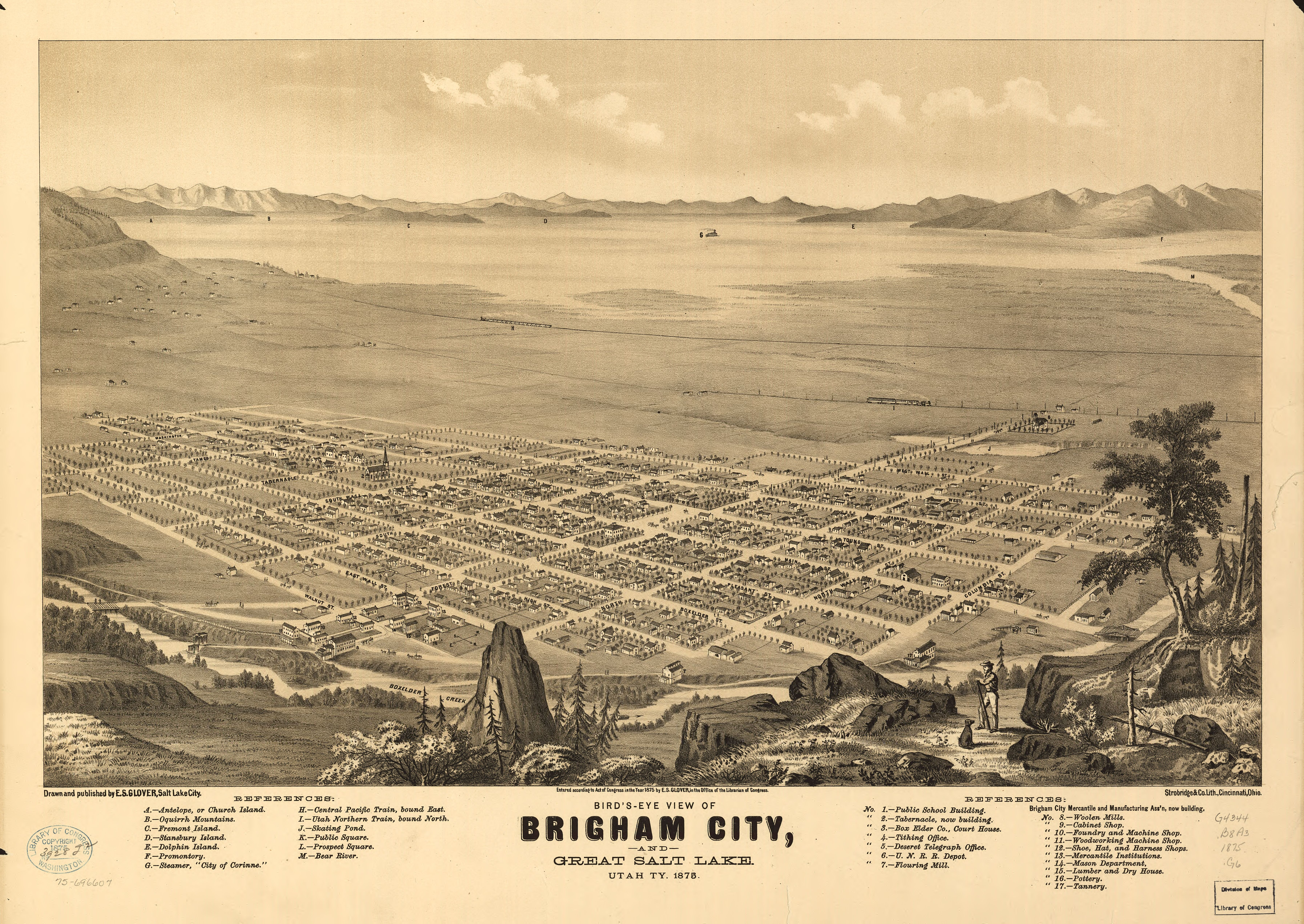 Perspective map not drawn to scale. LC Panoramic maps (2nd ed.), 923 Available also through the Library of Congress Web site as a raster image. Indexed for points of interest. AACR2